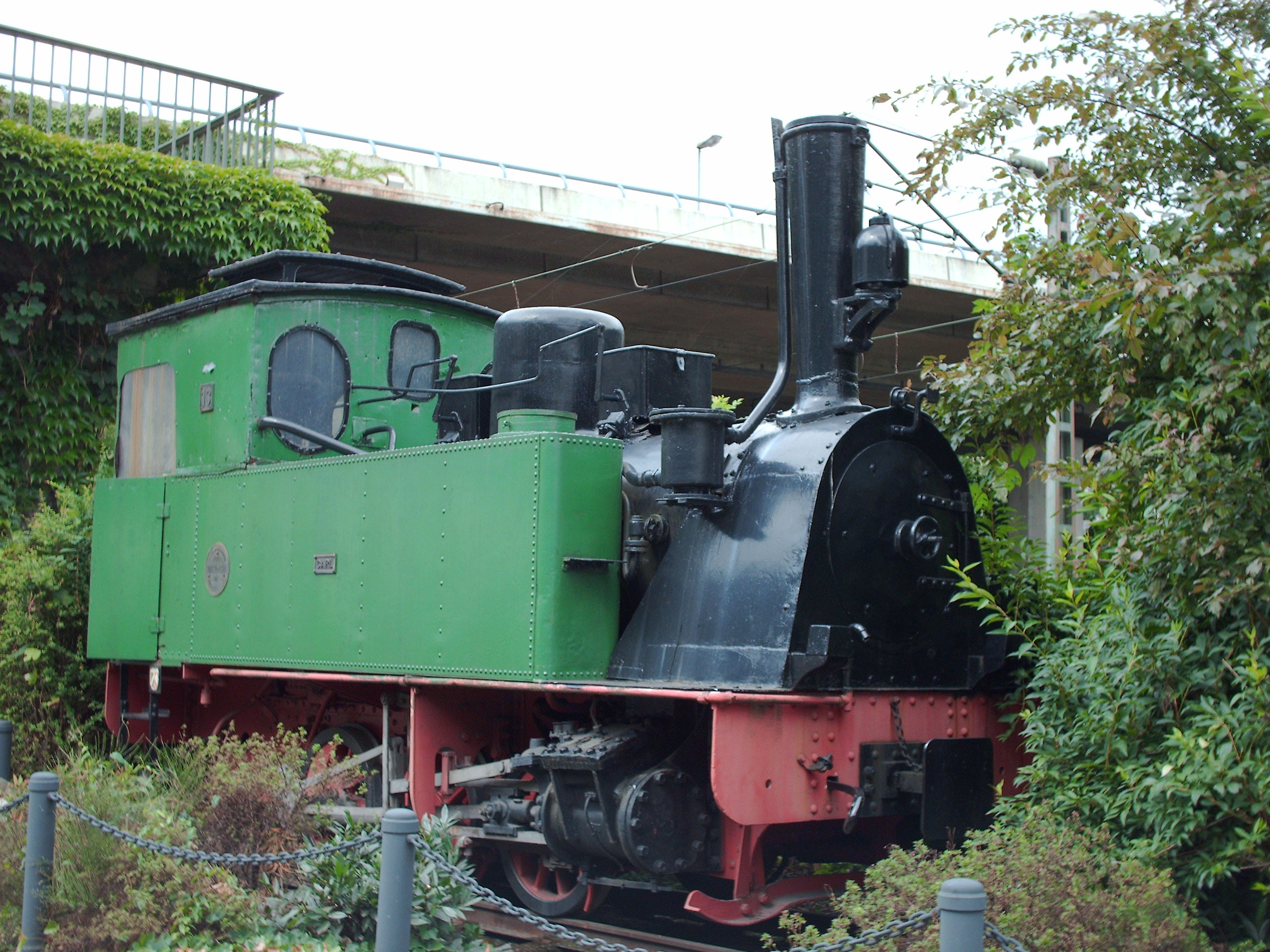 Steam locomotives, Altena, Germany check usage